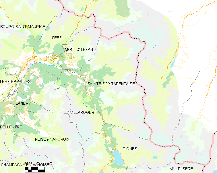 Map of French municipality